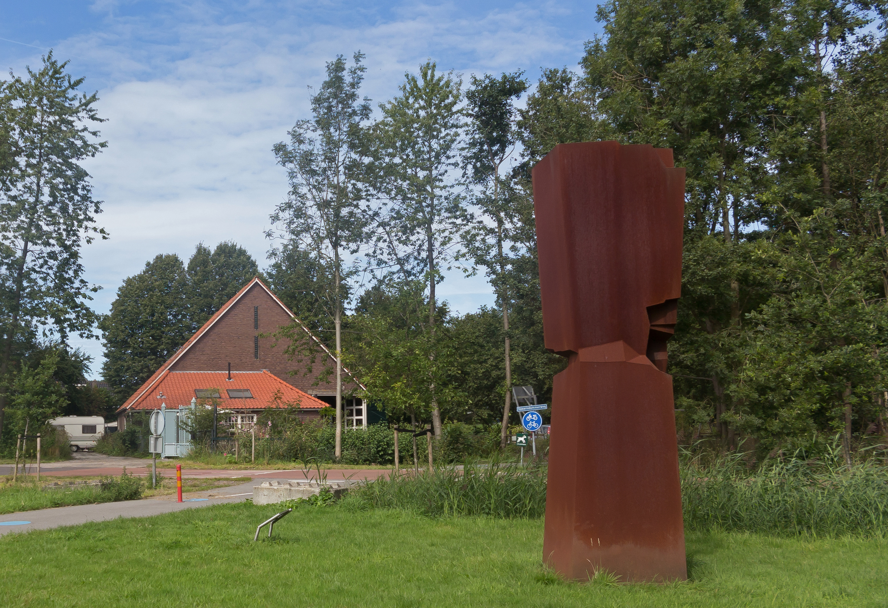 Spaarnwoude, sculpture Frans de Wit without title